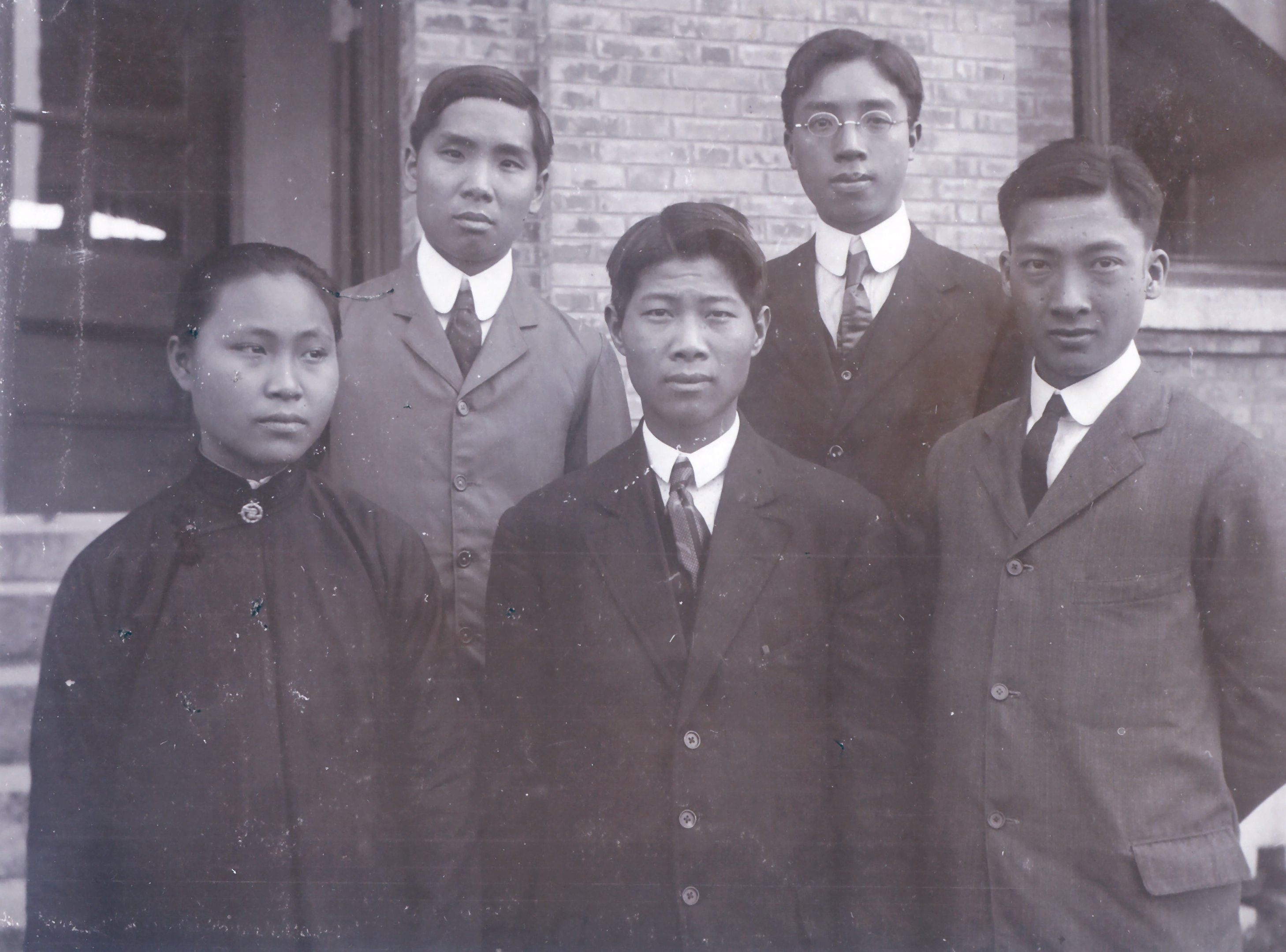 University of Pennsylvania's Medical School in Canton, China, members of the first class